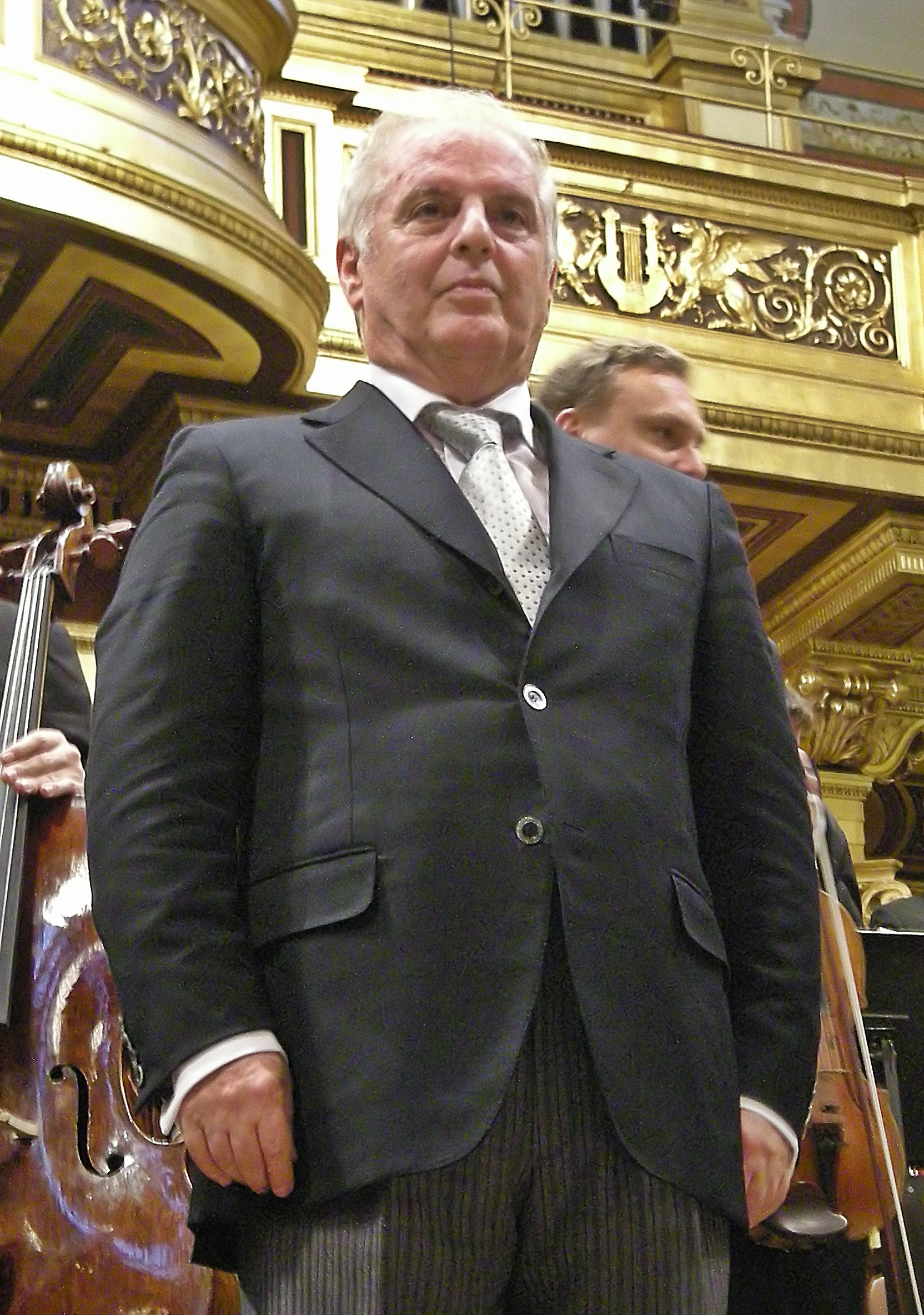 Daniel Barenboim after a performance of Mahler's Fifth Symphony at the Musikverein, Vienna, Austria (November 2, 2008). Taken by the uploader.